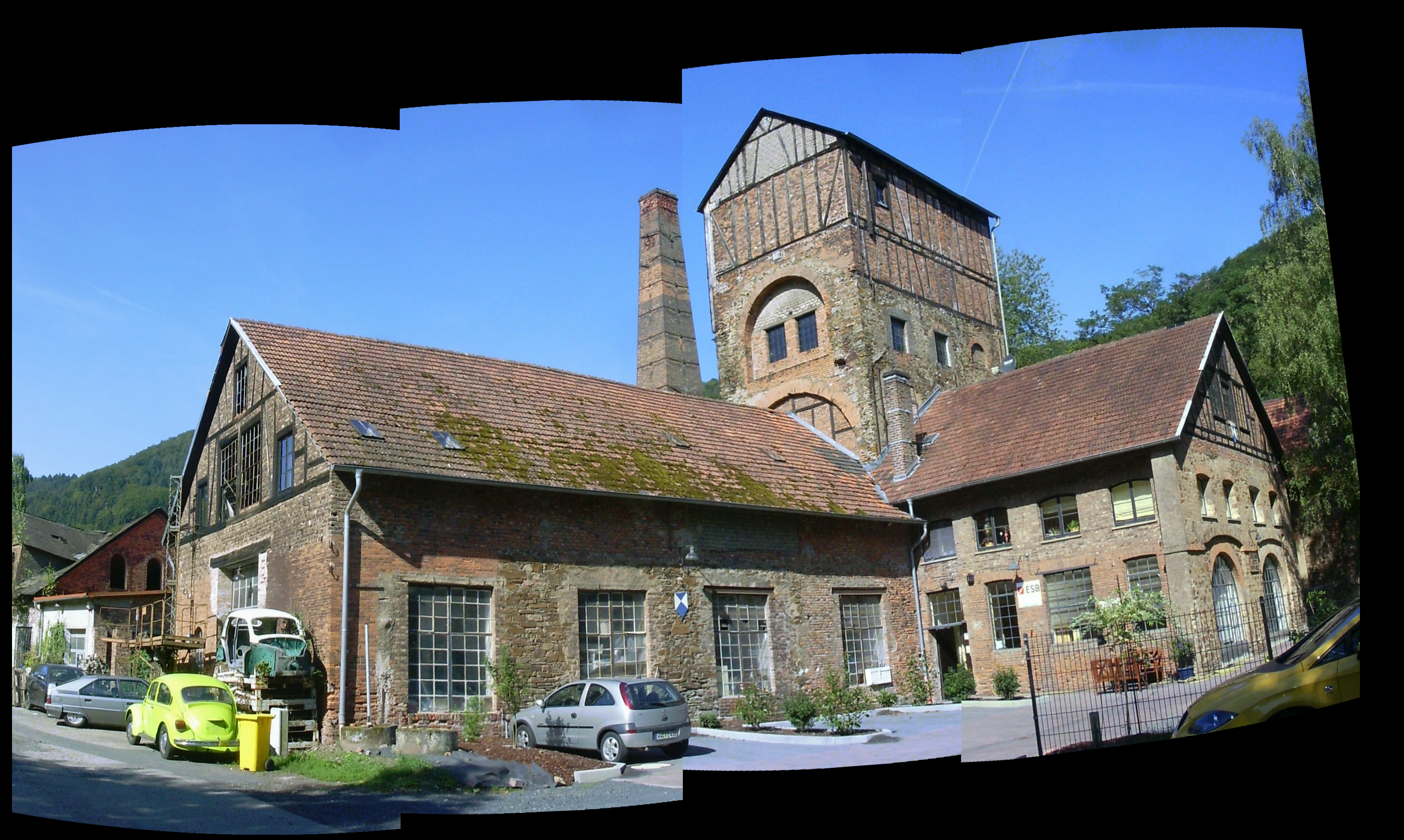 Nieverner Hütte